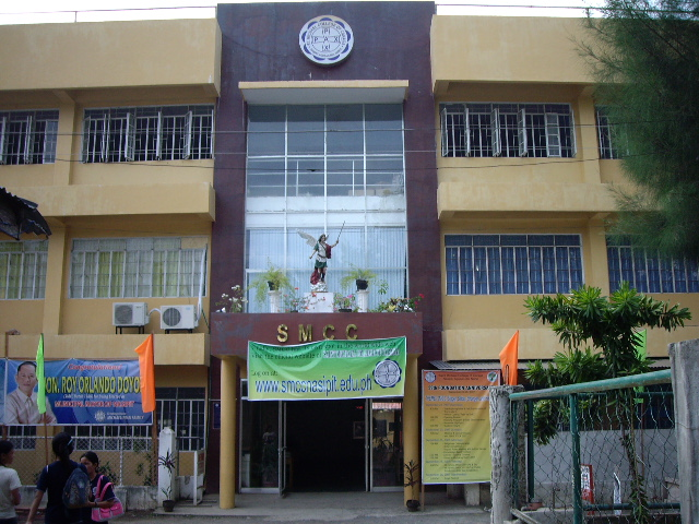 The Saint Michael College of Caraga, one of the oldest school in Nasipit established on 1948.